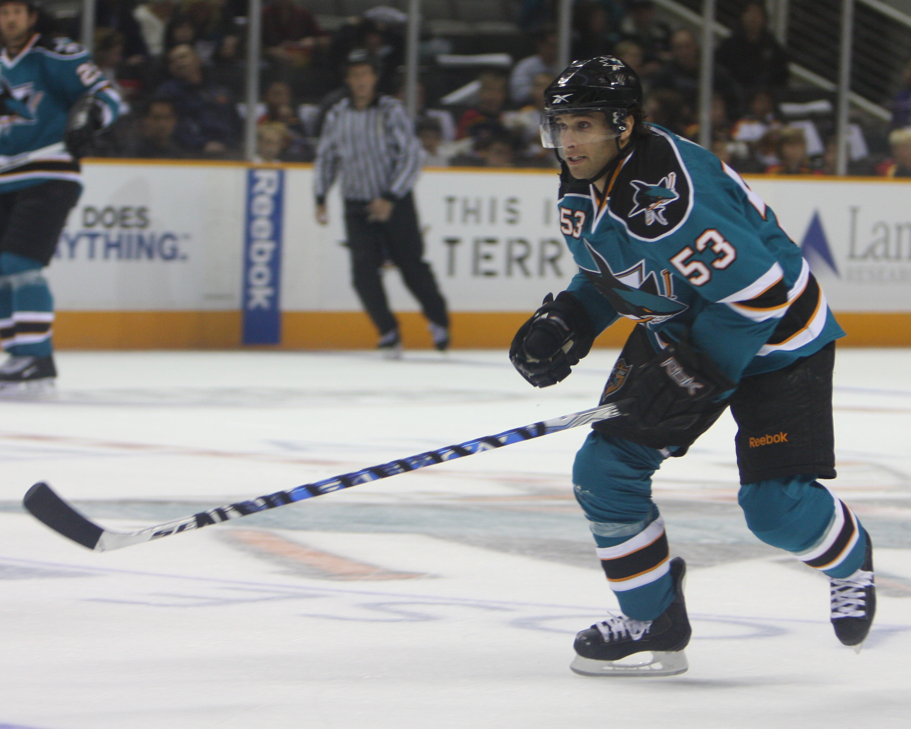 Ryan Vesce during the SJ Sharks Teal and White Game in 2009